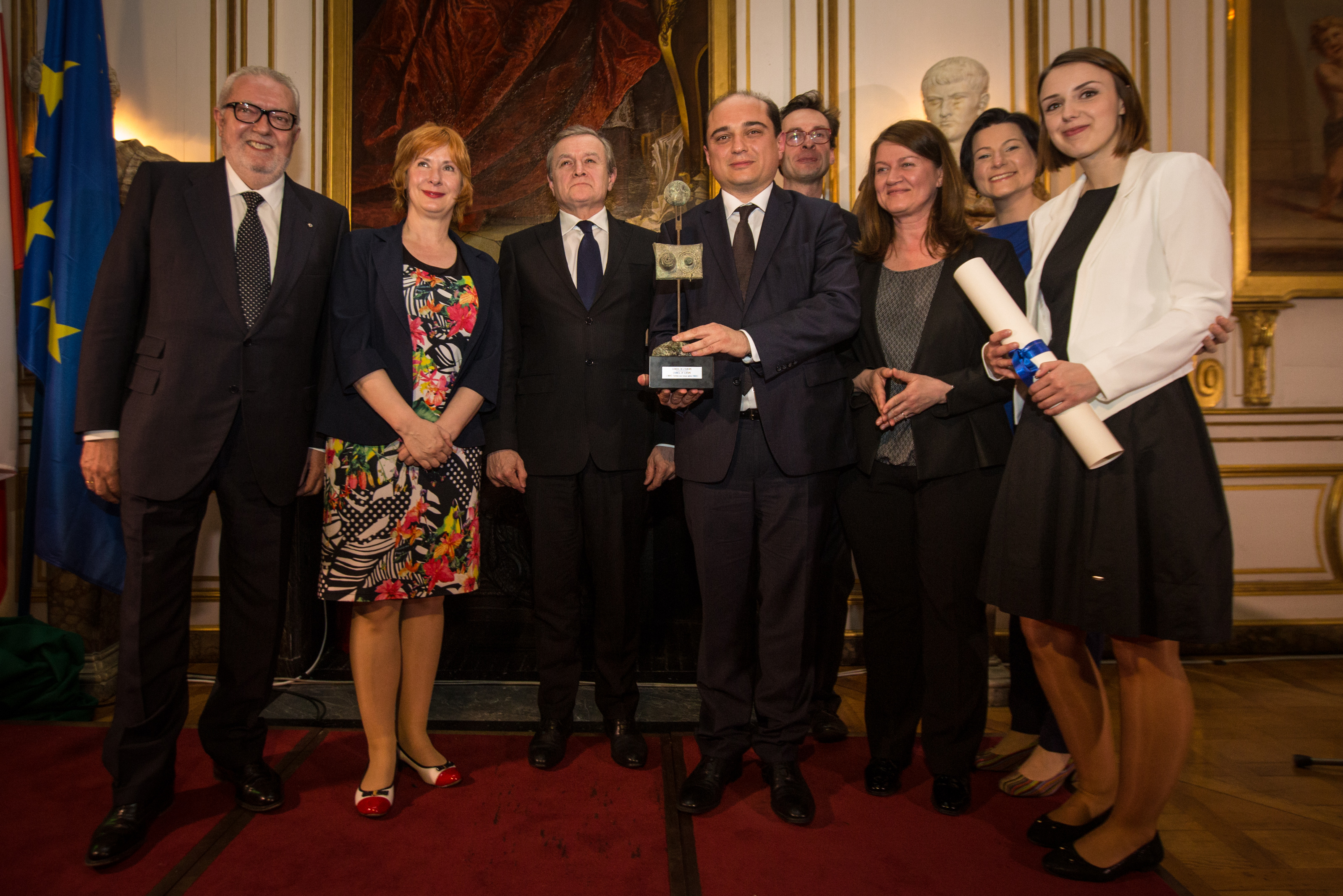 Council of Europe Museum Price Winner 2016 at Palais Rohan Strasbourg France